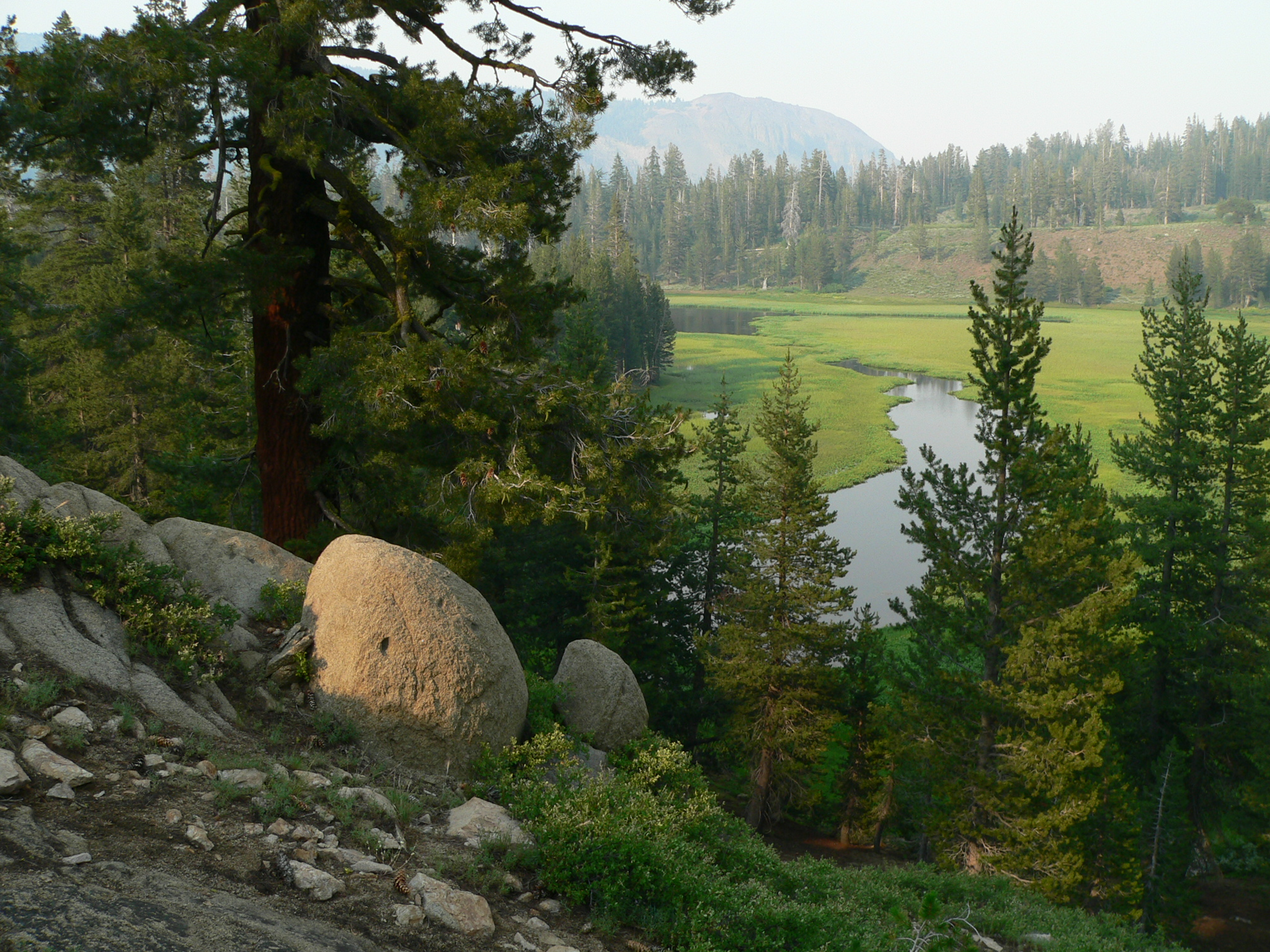 The peaceful waters of Halfmoon Lake shine amid surrounding greenery on the Calaveras Ranger District of the Stanislaus National Forest. Photo by Roy Bridgeman.